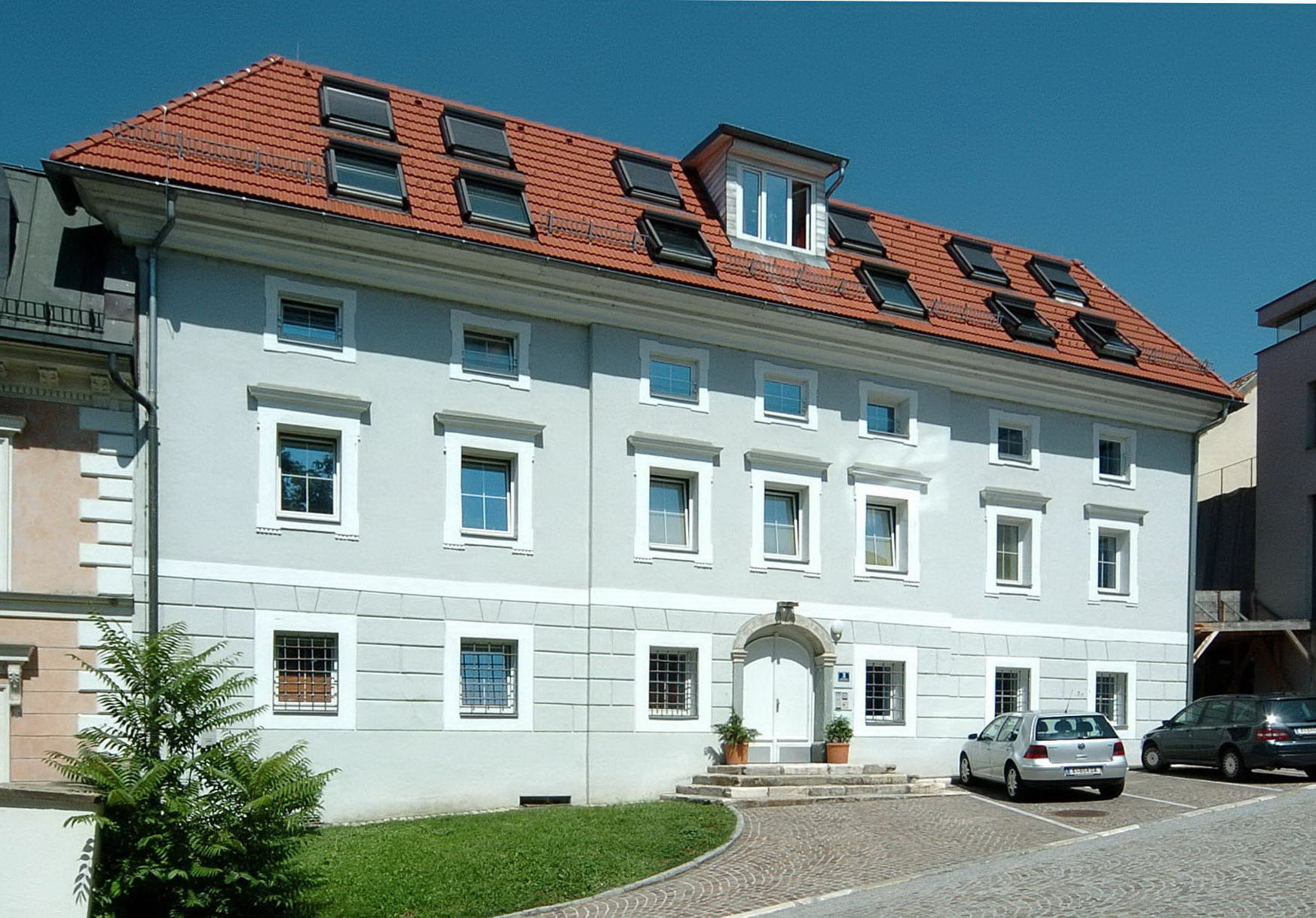 Residential house of the master builders Christoforo Crignolino, Domenico Venchiarutti, Alois Cargnelutti and Luigi Cargnelutti in the middle of the 19th century on the Kardinalschuett #3, Inner City of Carinthia`s capital Klagenfurt, Carinthia, Austria